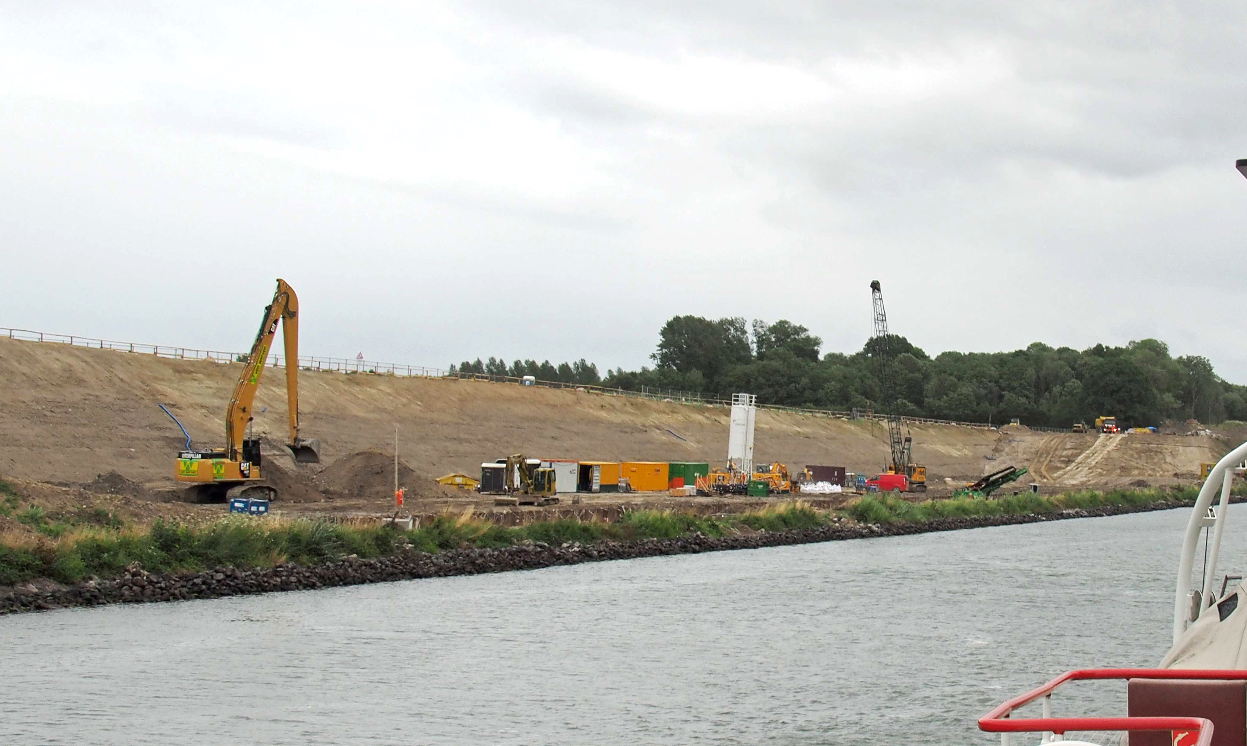 Expansion east section Kiel Canal near Königsförde